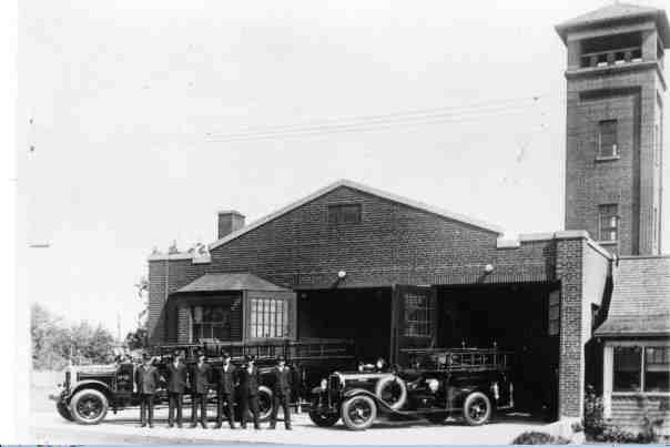 Birchmount firehall in 1922